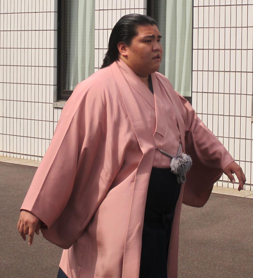 Mitakeumi while still in Juryo in Autumn Sumo Tournament in Tokyo with Zanbara hairstyle.